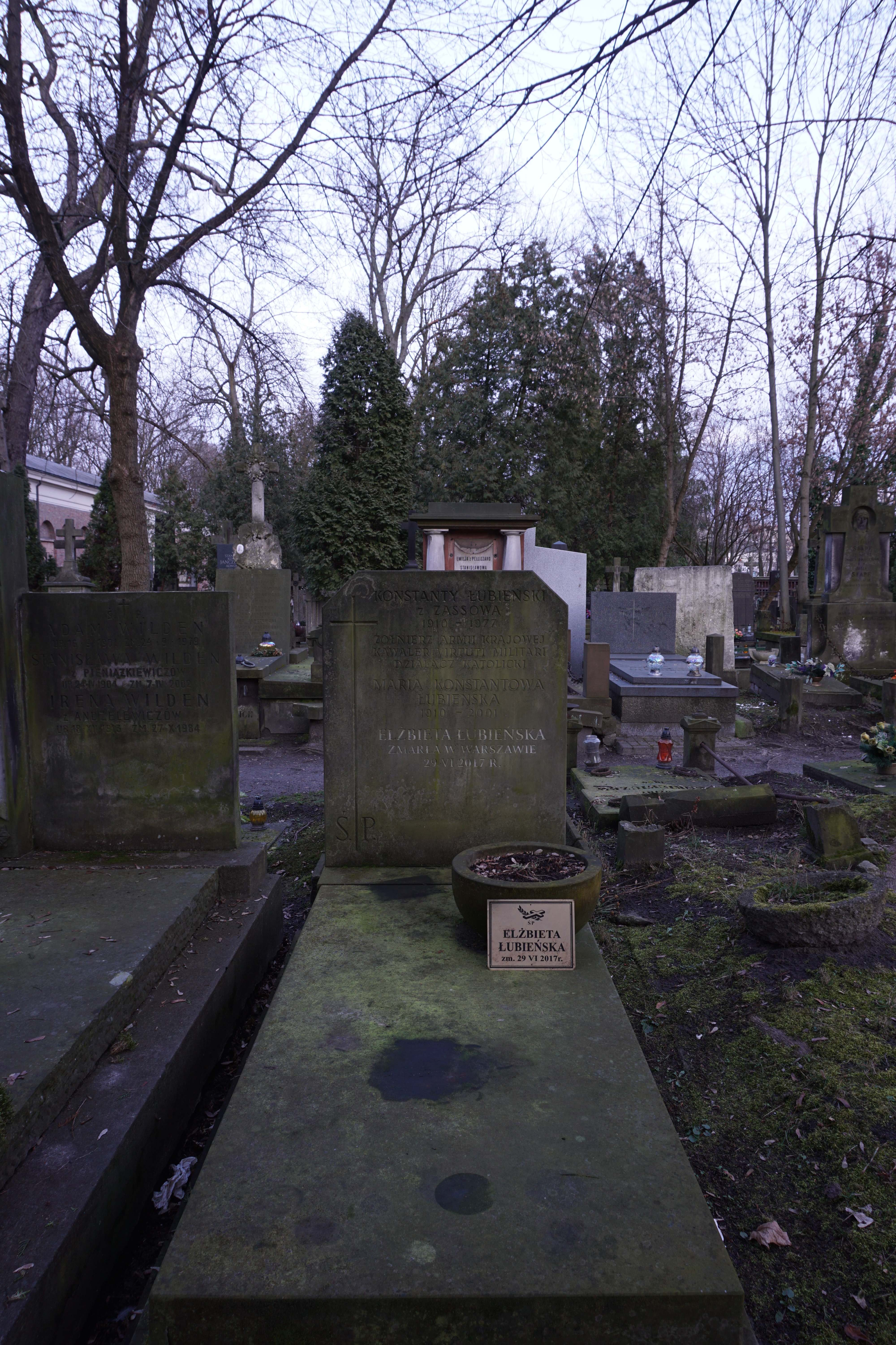 The grave of Konstanty Łubieński at the Powązki Cemetery (section 172, row 4, grave 12)